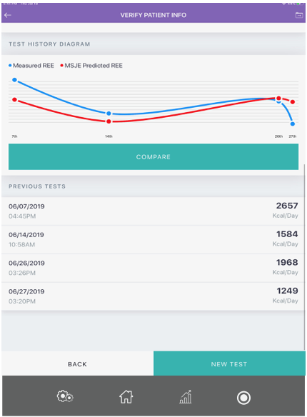 Breezing Pro app patient management